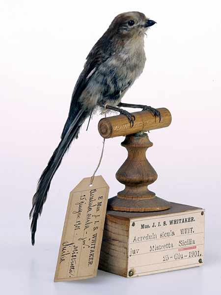 Stuffed Long-tailed Tit Aegithalos caudatus, subspecies siculus